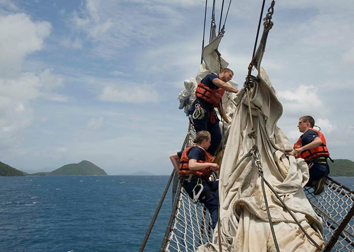 Aboard the USCGC Eagle, Petty Officer 3rd Class Garrett Henderson, a Boatswain’s Mate, leads 3rd class cadets Lucy Daghir (left) and James Hegge in furling the headsails on the bowsprit while sailing through the Sir Francis Drake Channel.